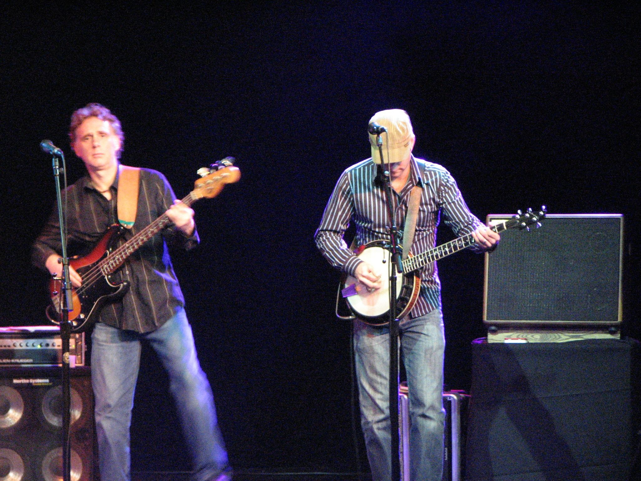 Cam Salay and Brad Gillard of the The Paperboys performing at the Triple Door in Seattle, Washington in November 2006.